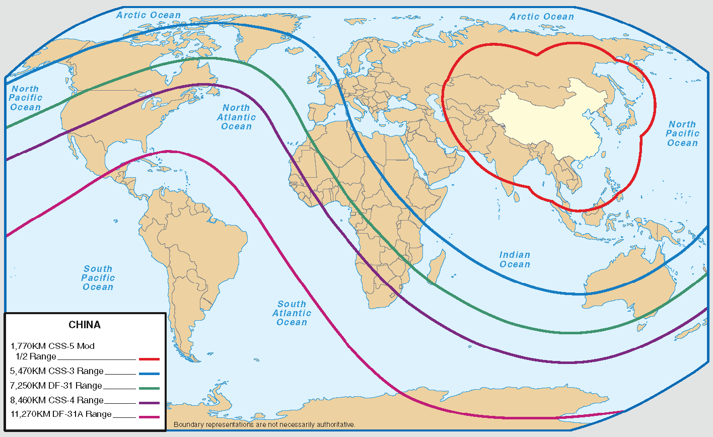 Figure 6. Medium and Intercontinental Range Ballistic Missiles. Note: China currently is capable of targeting its nuclear forces throughout the region and most of the world, including the continental United States. Newer systems, such as the DF-31, DF-31A, and JL-2, will give China a more survivable nuclear force.